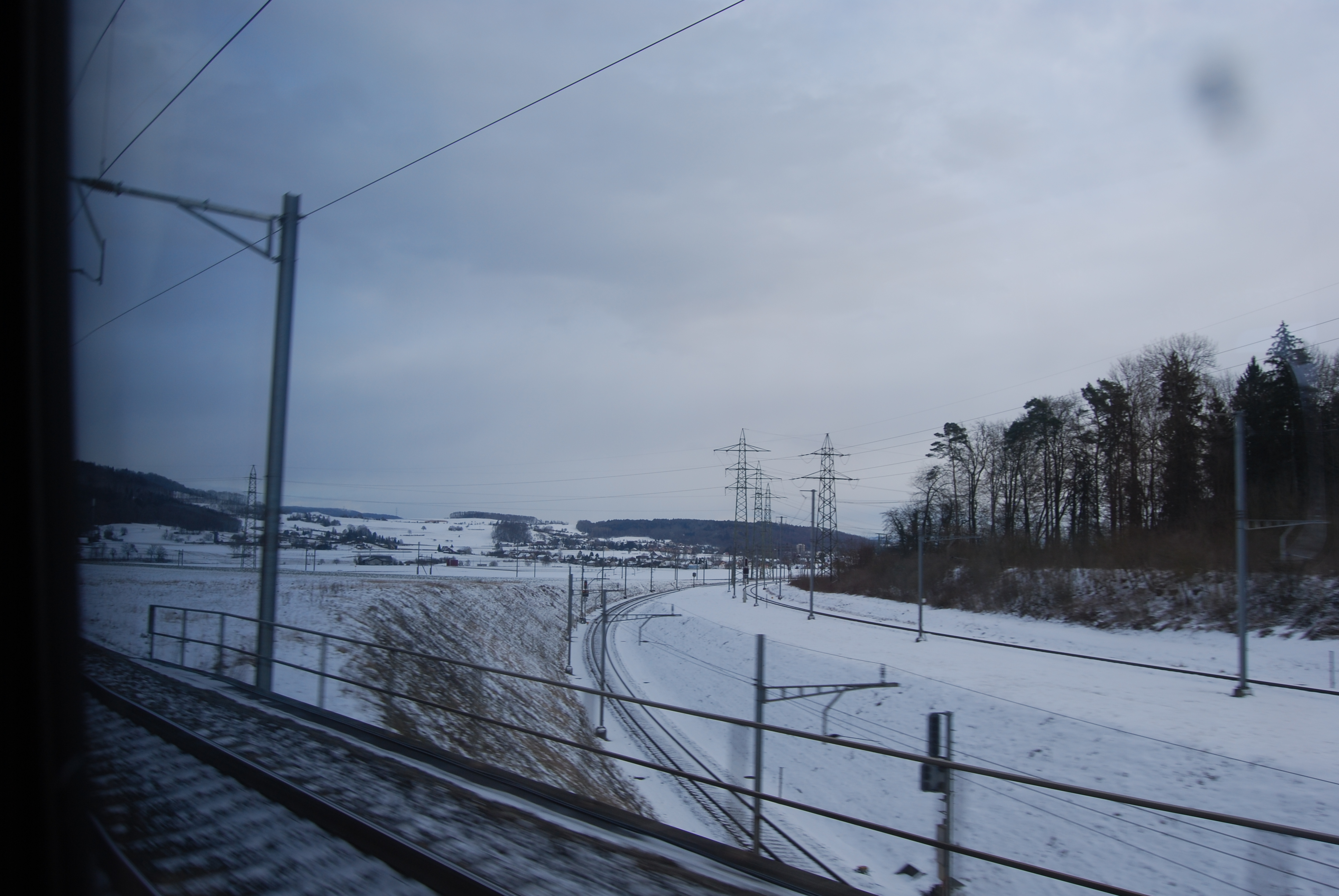 View from train between Lenzbrug and Othmarsingen to Hendschiken and Dottikon, canton of Aargau, SwitzerlandEsperanto: Rigarcdo el la trajno inter Lencburgo kaj Othmarsingen al Hendschiken kaj Dottikon, Kantono Argovio, Svislando